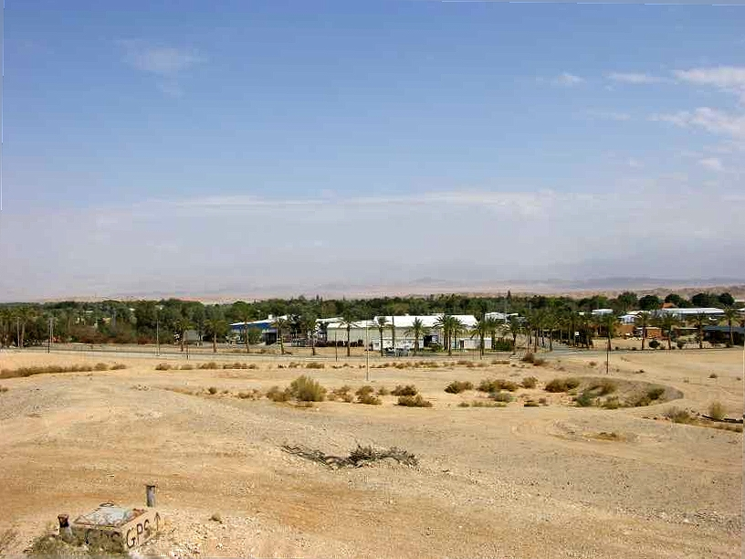 Ein Yahav